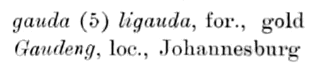 Photo of snippet of text showing the Sesotho word "Gaudeng" (modern Gauteng) in Jacottet's A practical method to learn Sesuto : with exercises and a short vocabulary, published in 1906. A scanned version of this text is available on at [1]. The text reads: gauda (5) ligauda, for[eign], gold Gaudeng, loc[ative], Johannesburg